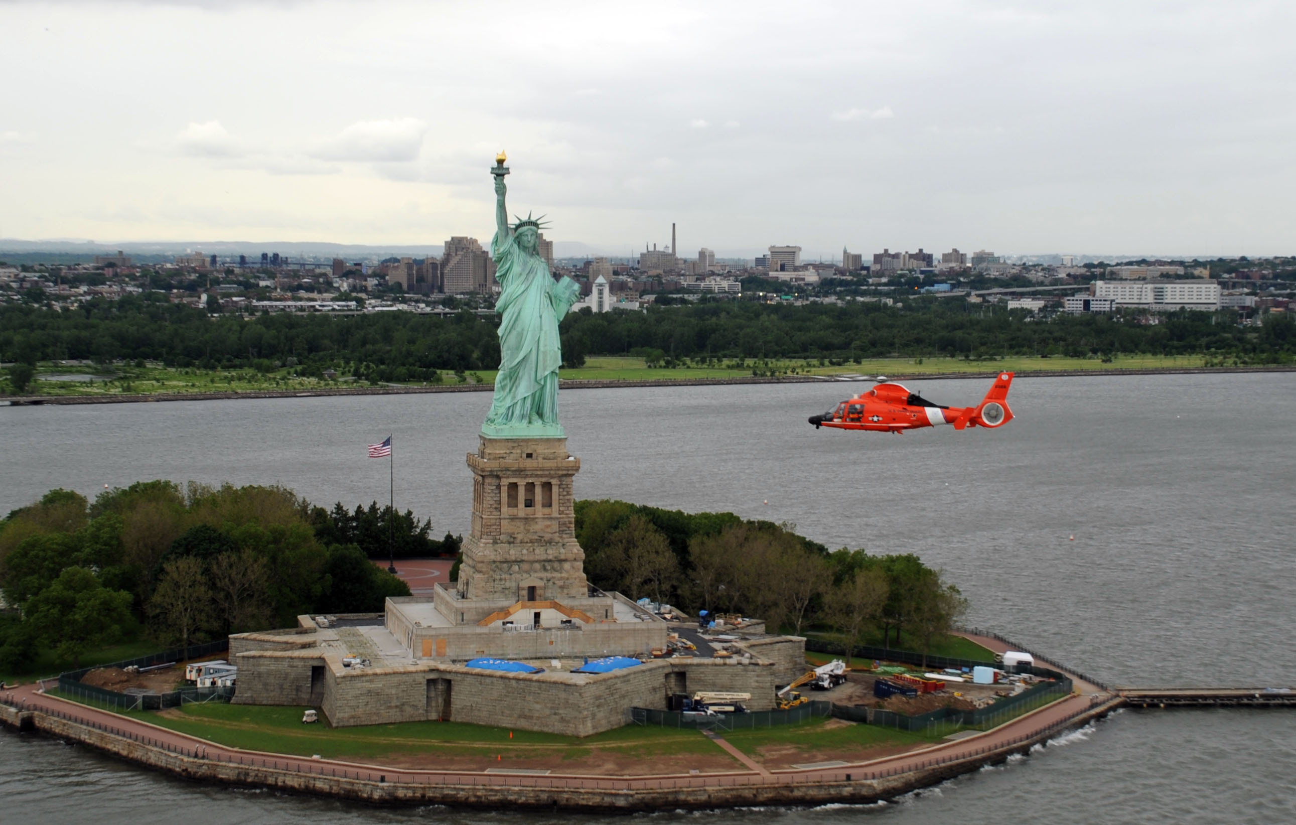 NEW YORK ? An MH-65 Dolphin helicopter and crew, from Coast Guard Air Station Atlantic City, N.J., is shown flying near Liberty Island in New York Harbor, June 4, 2012. The air station's crewmembers support a wide range of Coast Guard missions, including search and rescue, law enforcement, port security and marine environmental protection. U.S. Coast Guard photo by Petty Officer 3rd Class Cynthia Oldham.